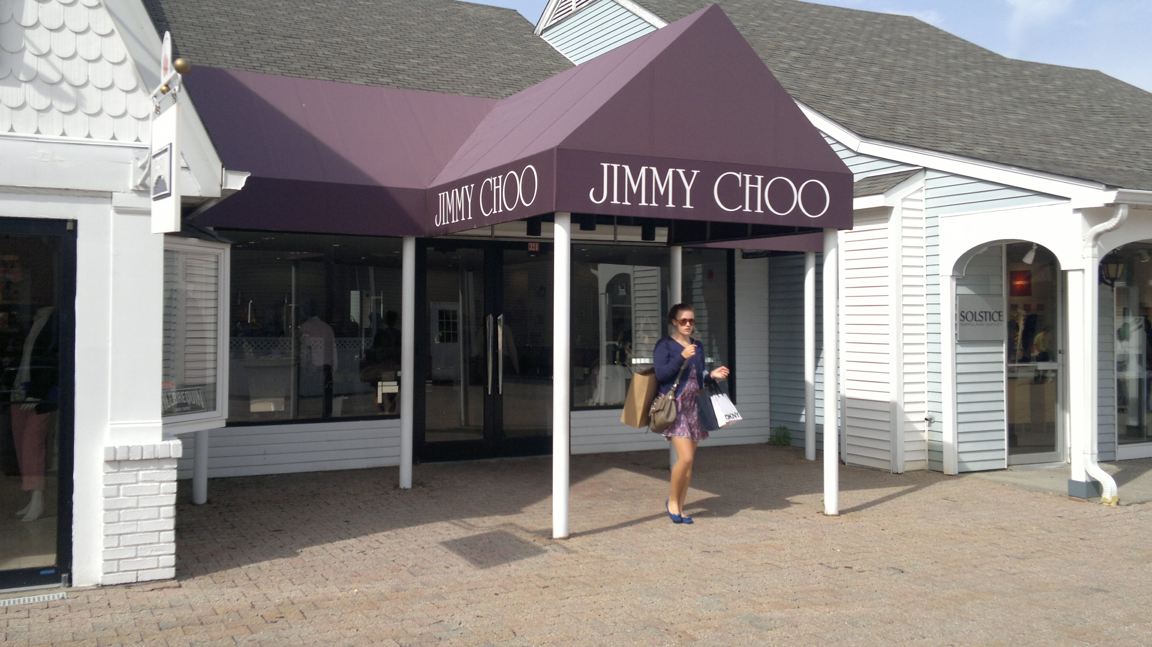 Outside view of the Jimmy CHoos boutique at Woodbury Common, New York